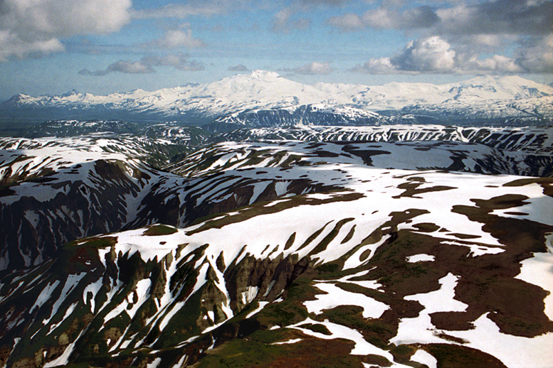 Katmai National Park and Preserve, Alaska, USA, Fourpeaked Mountain and Mount Douglas from floatplane heading to Brooks Falls area landing on Naknek Lake.